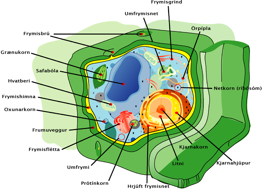 From Image:Plant_cell_structure_no_text.png, text by me and of course: PD